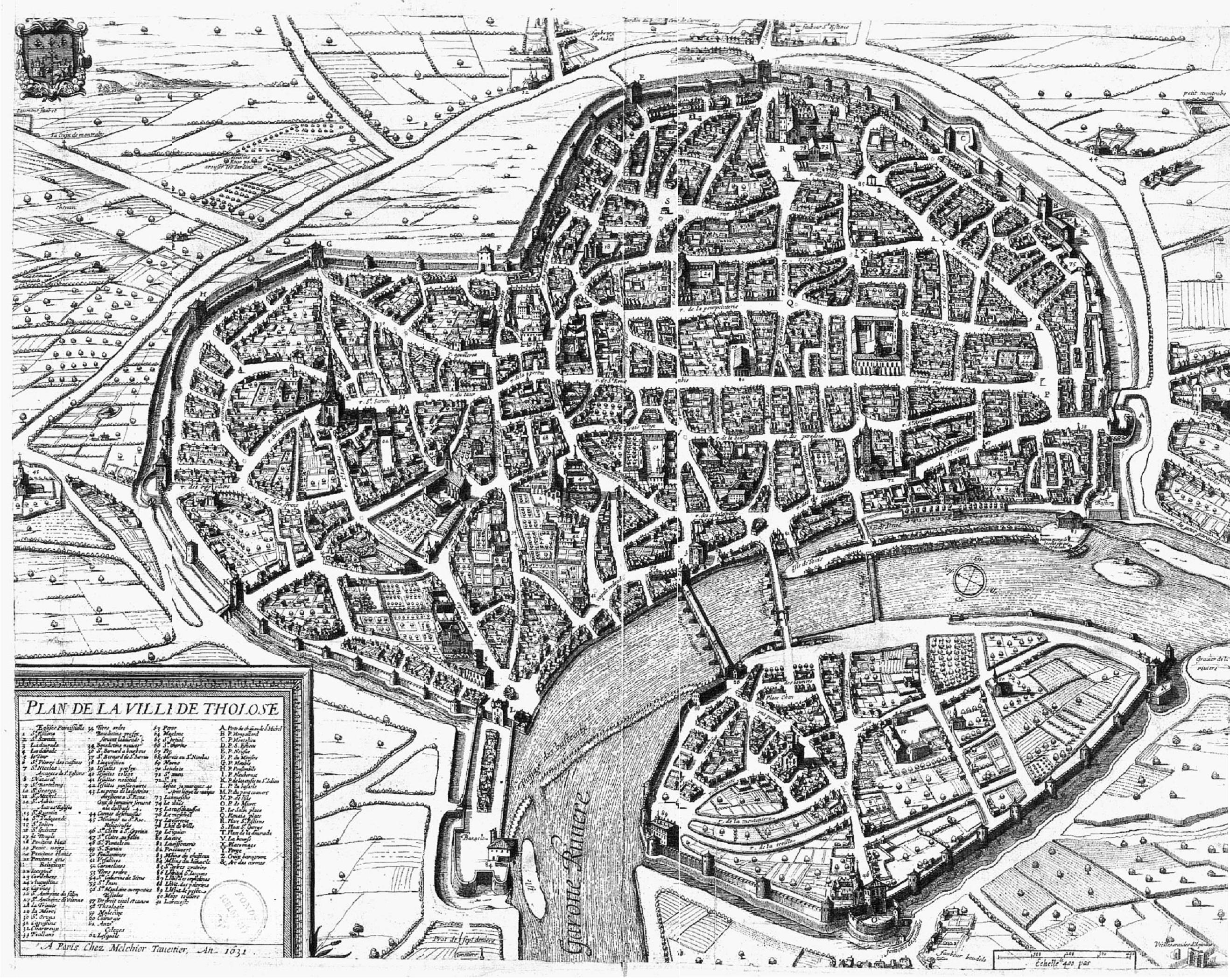 Downloaded for Toulouse Archives website; file no longer there.